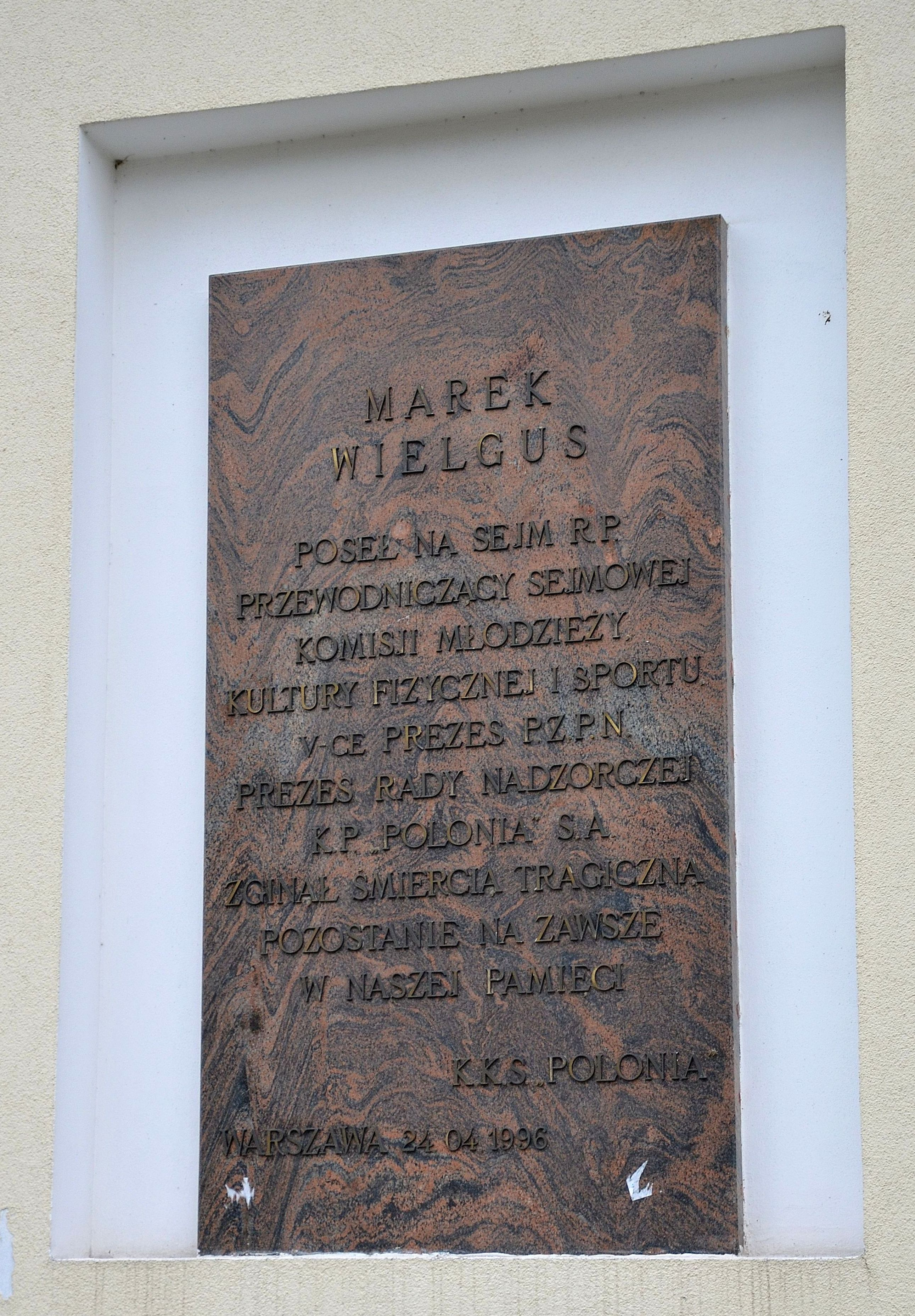 Plaque in memory of Marek Wielgus near the entrance to Polonia Stadium in Warsaw